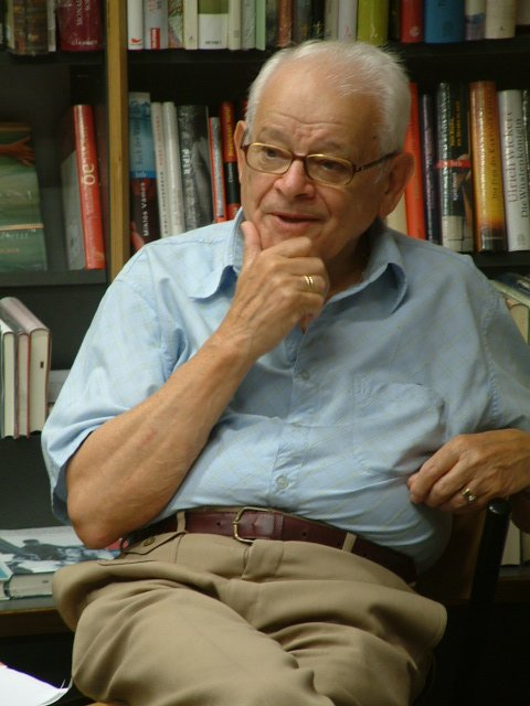 Jules Schelvils, photo taken at his speech on 20. Juli 2006 in Dresden by Jens Herrmann